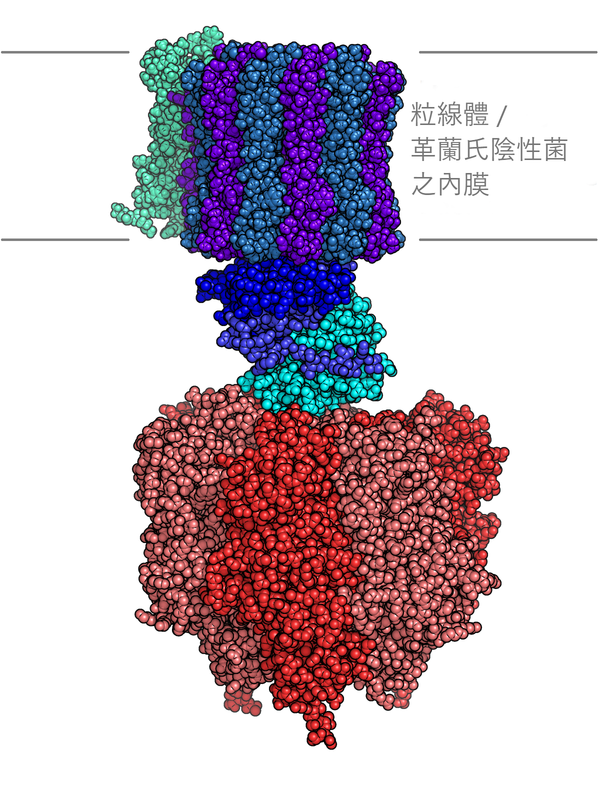 Using 1QO1 as framework to combine 1C17(FO) and 1E79(F1. PyMOL was used for rendering.